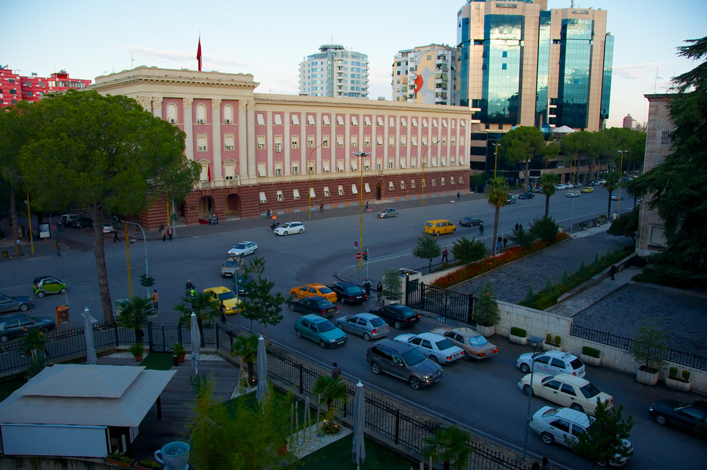 the Twin Towers